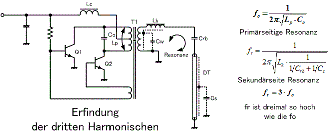 DE version